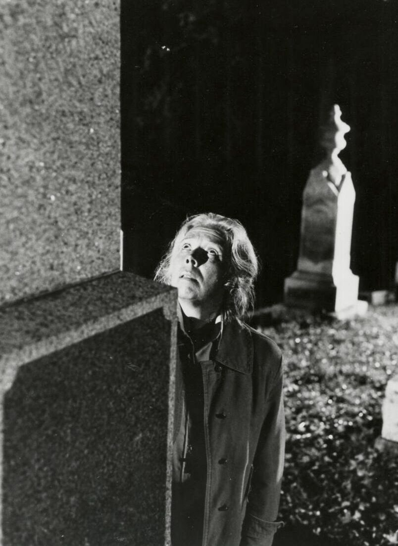 Elizabeth Hoffman in Fear No Evil